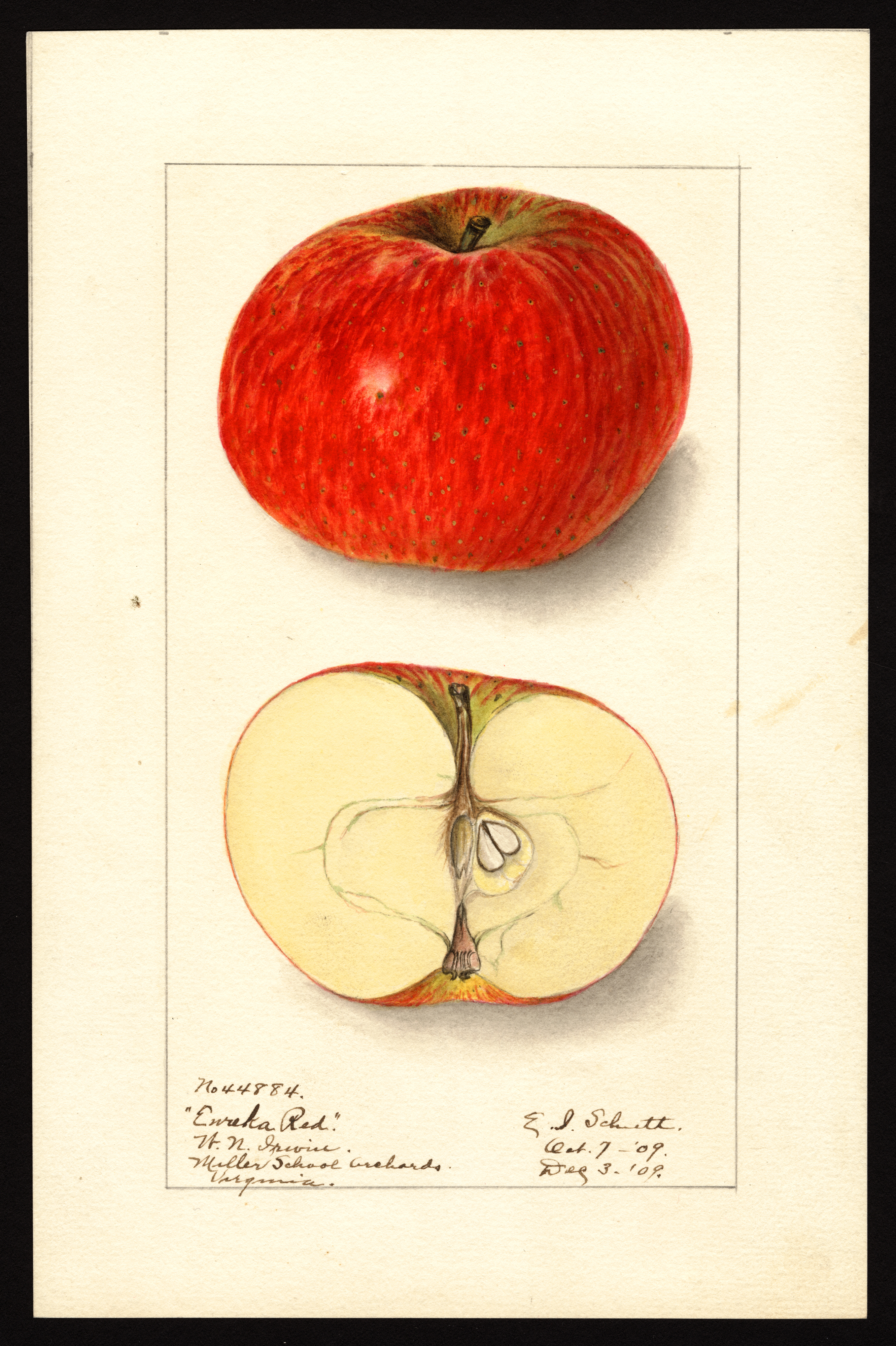 Image of the Eureka Red variety of apples (scientific name: Malus domestica), with this specimen originating in Luzerne County, Virginia, United States. Source: U.S. Department of Agriculture Pomological Watercolor Collection. Rare and Special Collections, National Agricultural Library, Beltsville, MD 20705.